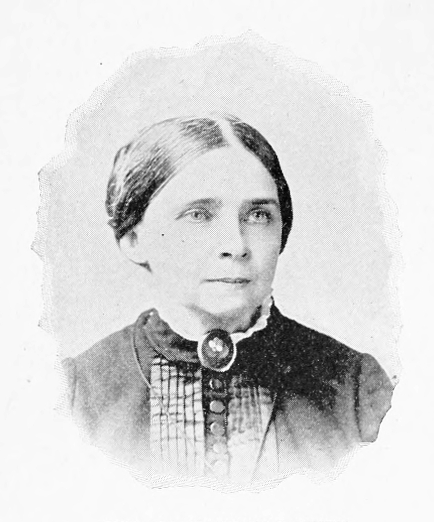 Mary Stuart Smith (Congress for Women, 1894)